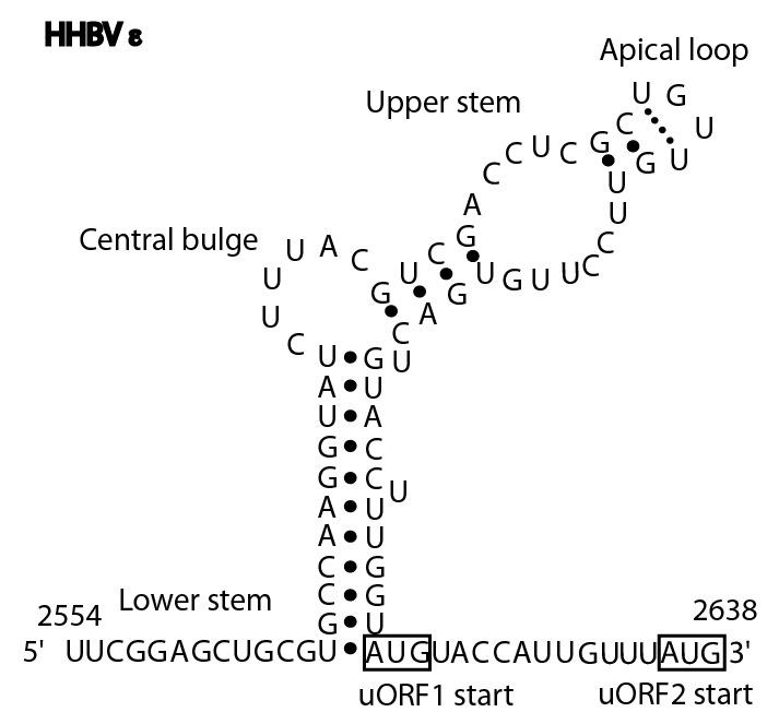 Heron HBV epsilon element secondary structure